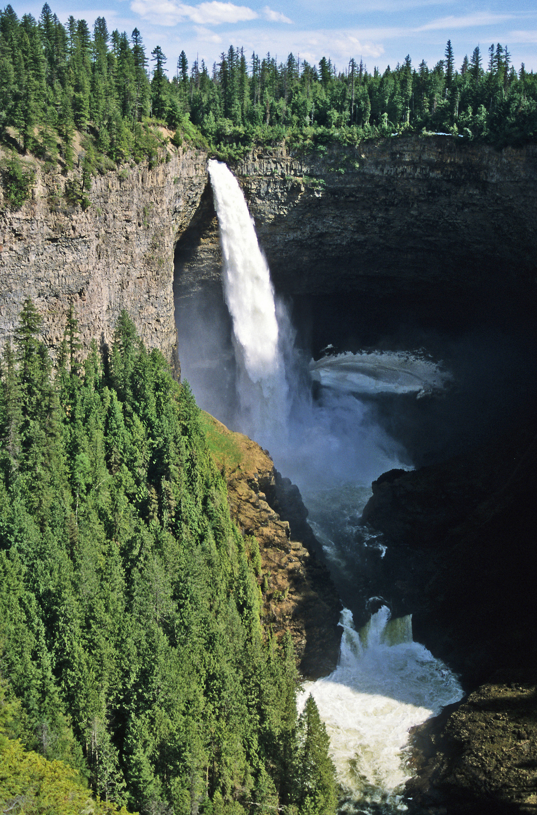 Helmcken Falls WGP